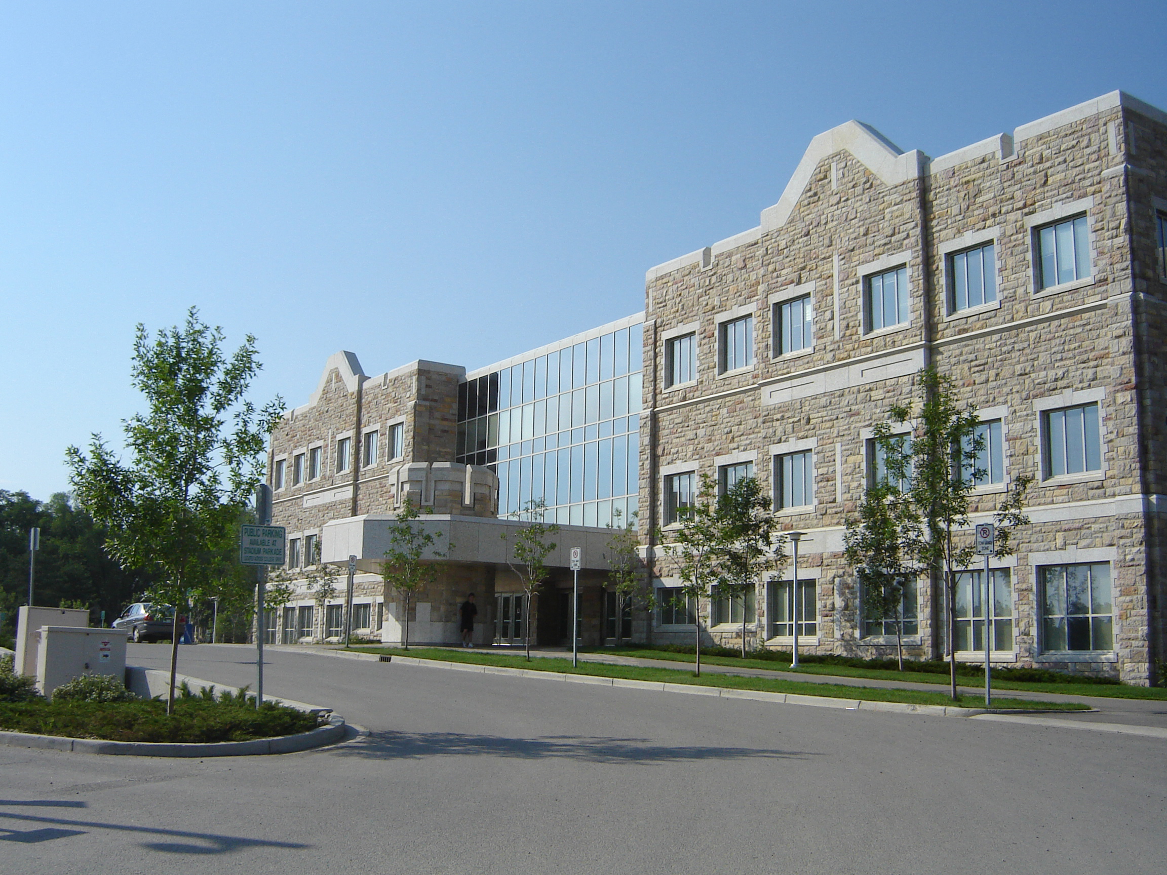 Physical Activity complex U of S Saskatoon Saskatchewan Canada